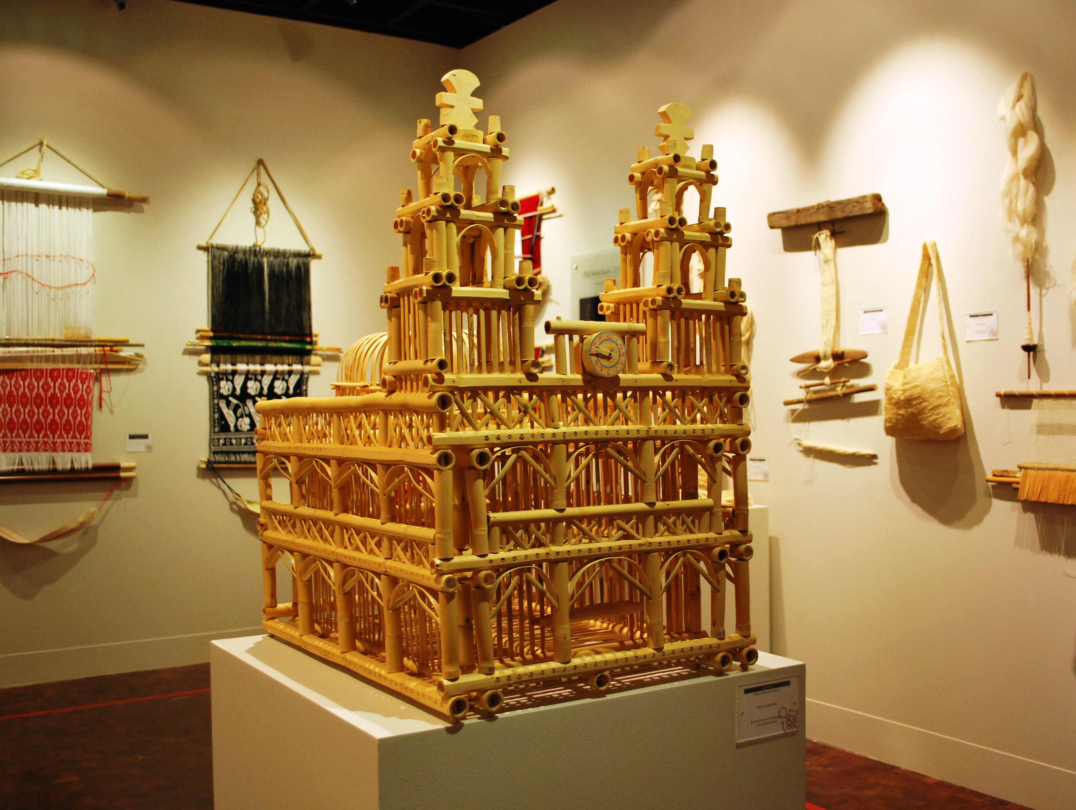 Church made of bamboo sticks as part of the “Hidalgo, Rituales, Usos y Creaciones” exhibit at the Museo de Arte Popular in Mexico City